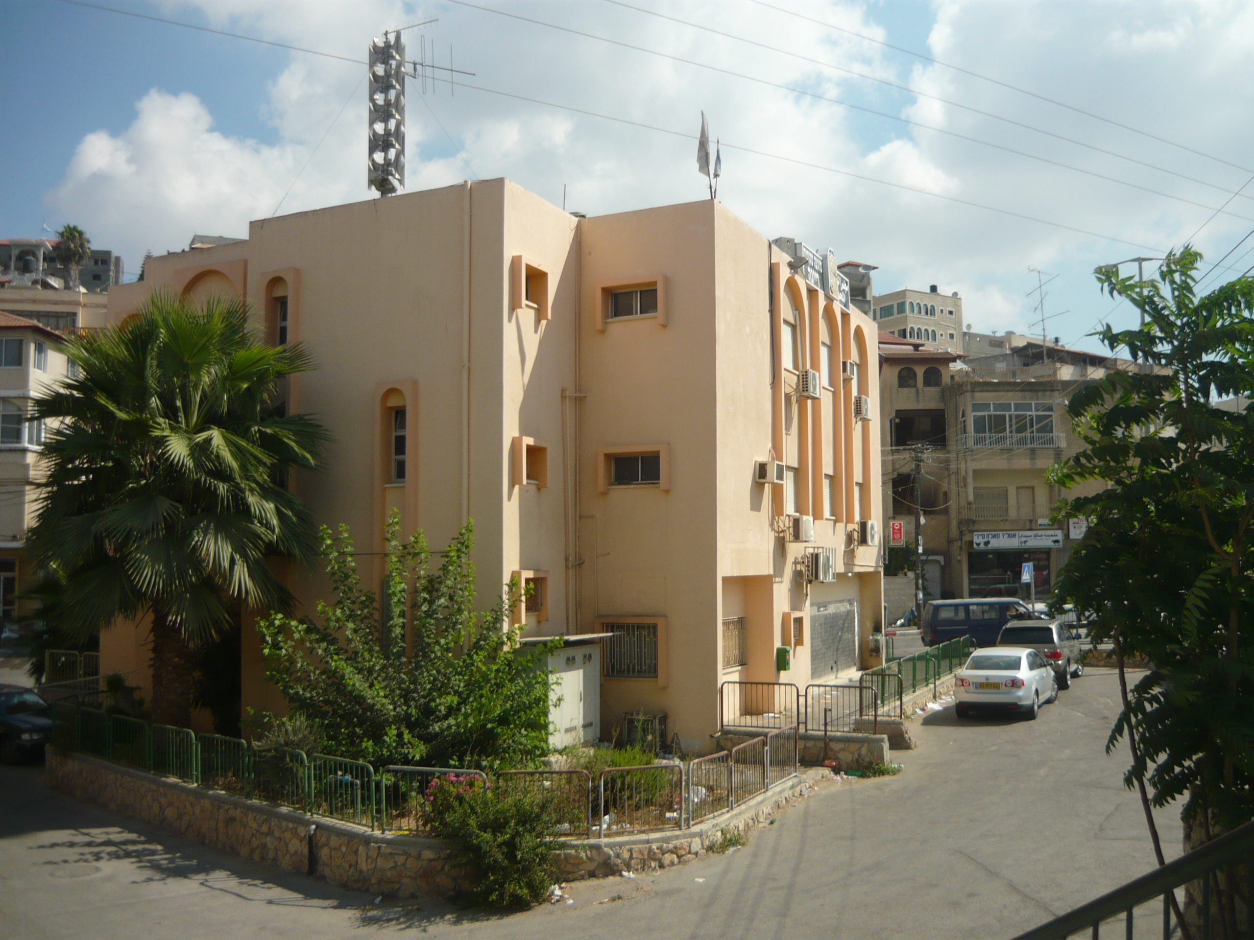 reineh בניין המועצה המקומית ריינה